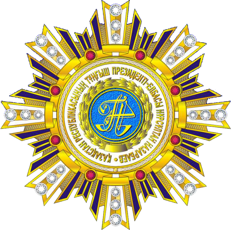 Sumbol of order "The first President of Republic Kazakhstan Noursultan Nazarbaev" (Қазақстан Республикасының Тұңғыш Президенті Нұрсұлтан Назарбаев) of Republic Kazakhstan. Type 4